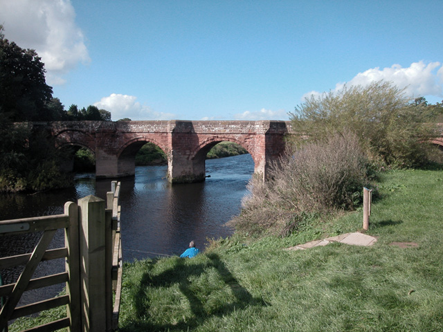 Photograph